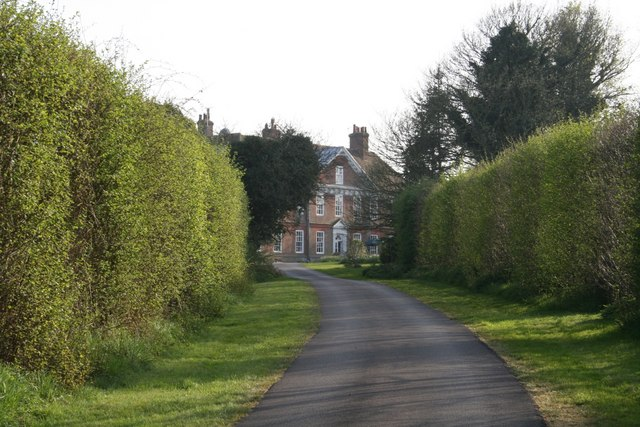 Mystole House Mystole House is a 16th century mansion, set in ornamental parkland.